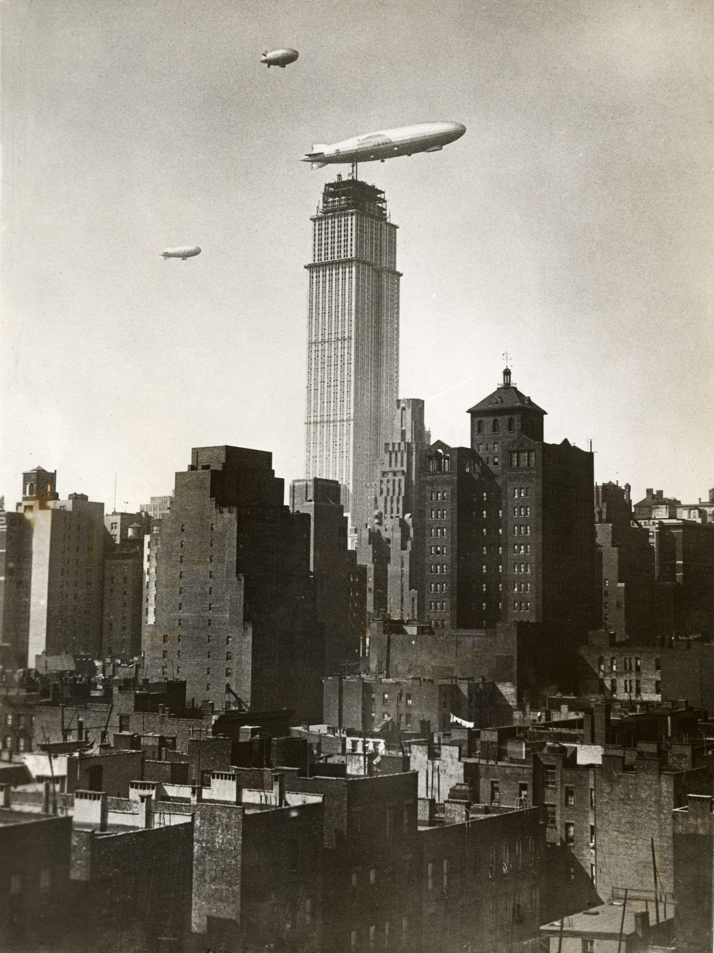 Nationaal Archief/Spaarnestad Photo